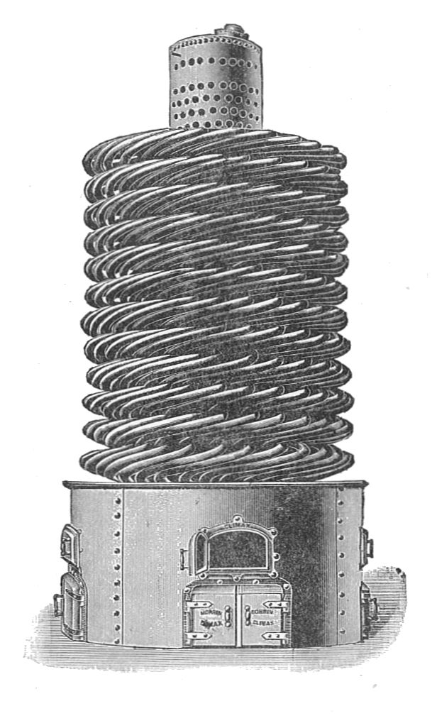 Climax boiler, casing removed (Rankin Kennedy, Modern Engines, Vol V).jpg